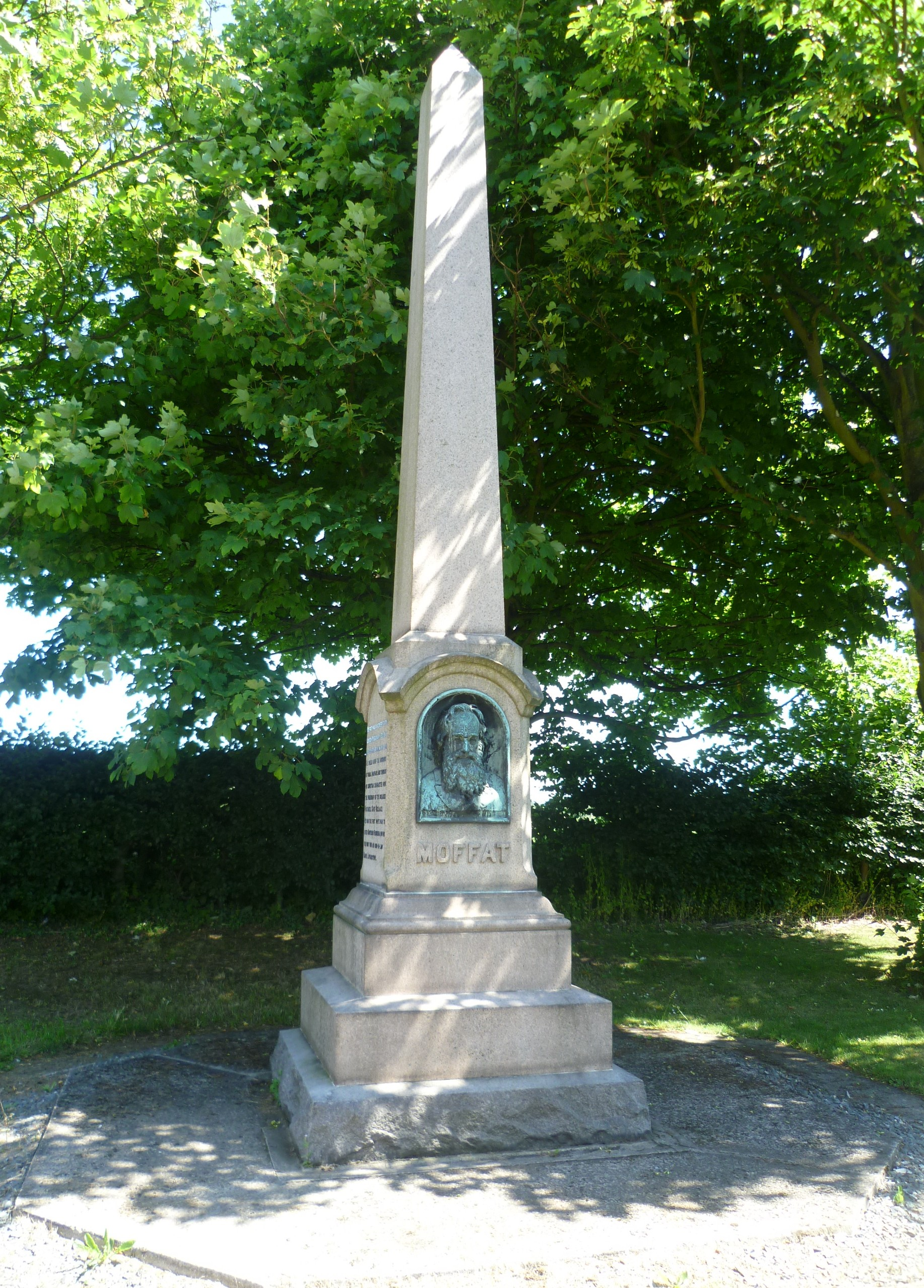 Robert Moffat Monument, Ormiston, East Lothian